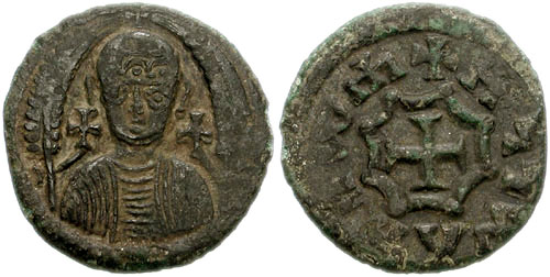 Coin of the Axumite king Hataz